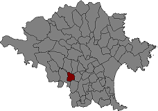 Location of Ordis in Alt Empordà